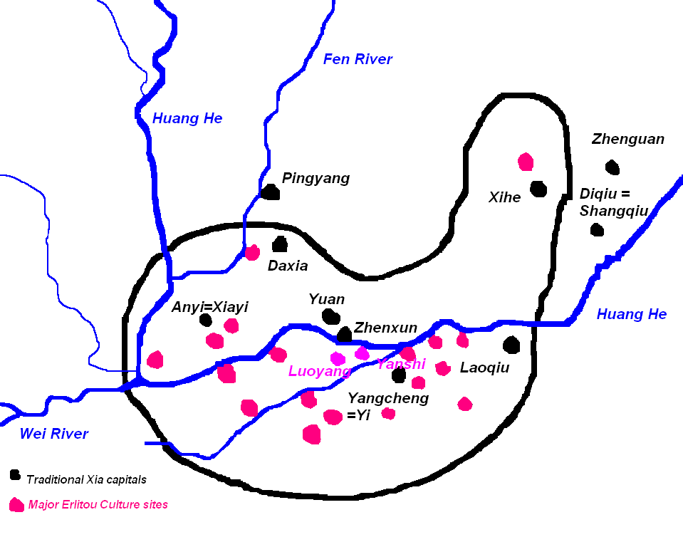 Major Erlitou Culture Sites and traditional Xia Dynasty capitals (based upon Kwang-chih Chang, The Archaeology of Ancient China, 1986, ISBN 0300037848, p.319)